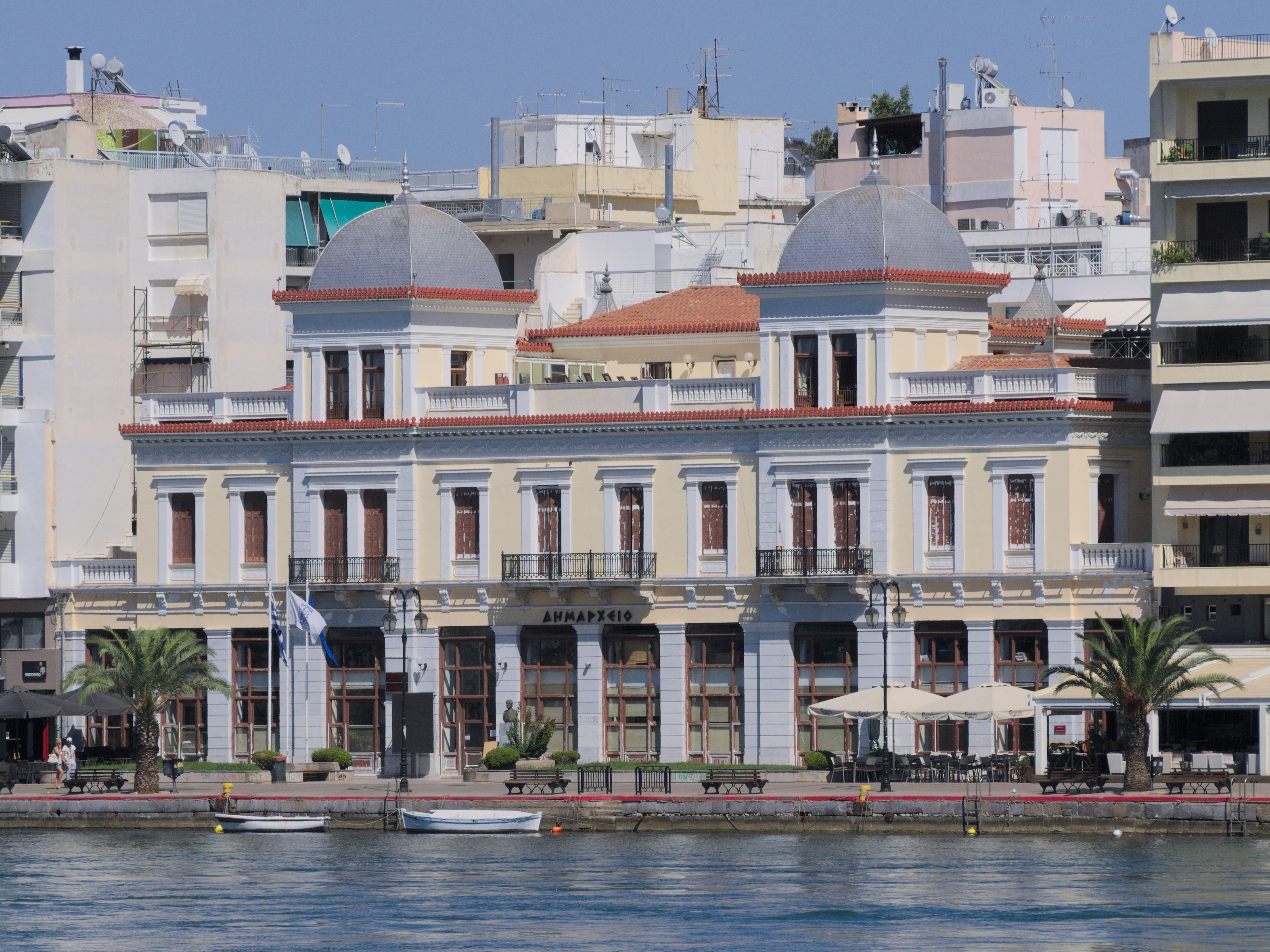 Chalkida town hall, as seen from across Evripos. Built by Pothitos Kamaras (1861-1935) in 1906.